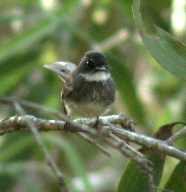 Northern Fantail (Rhipidura rufiventris) Abattoir Swamp, Julatten, N Queensland, Australia